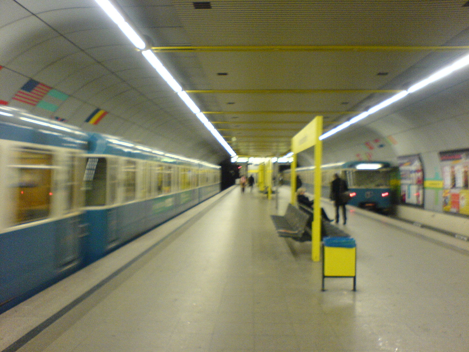 Munich subway station Schwanthalerhöhe, platform with two trains